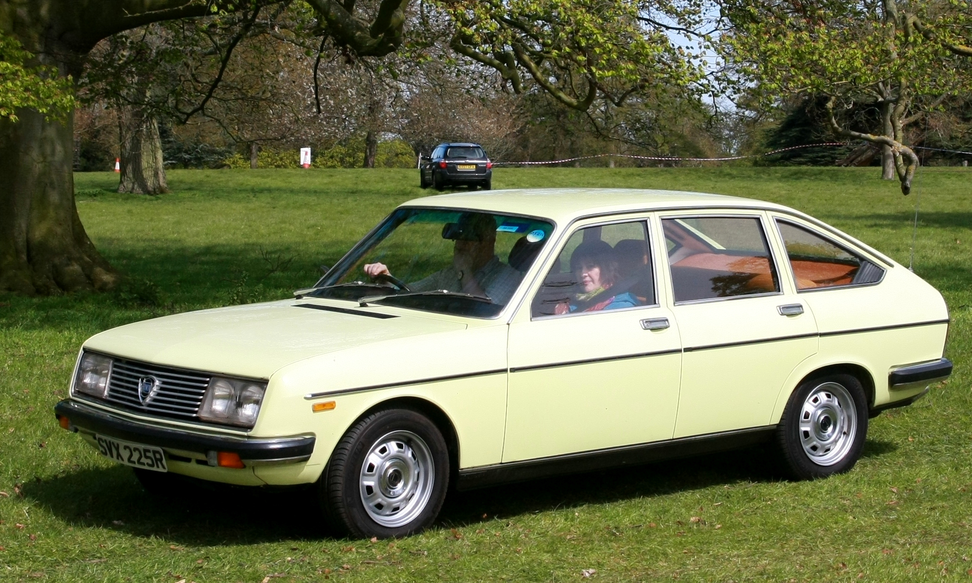 Lancia Beta Berlina registered April 1977 Image has been cropped to make it more suitable for small screen use License plate has been changed for anonymisation purposes. Year code remains correct, however.